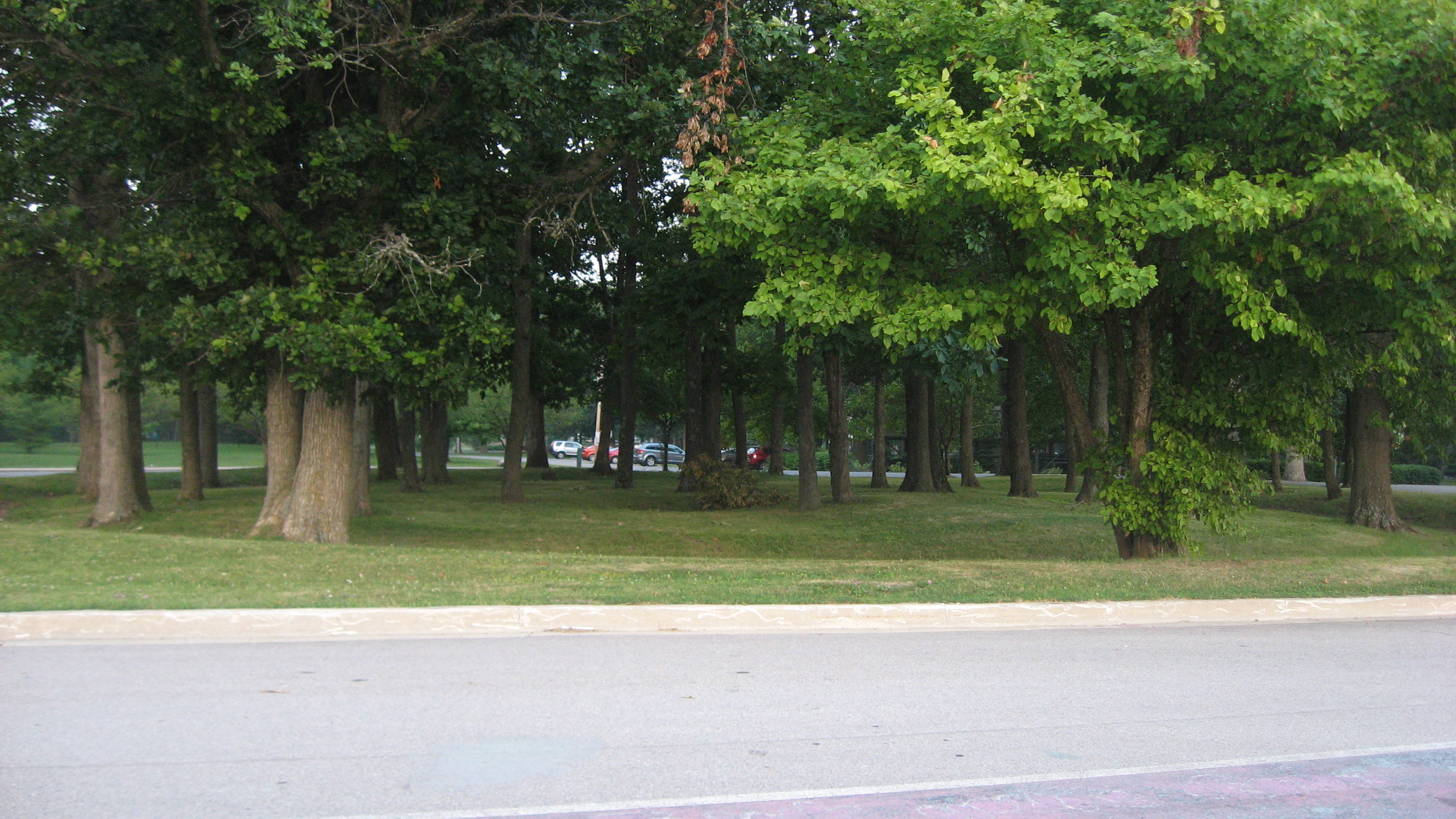 Comprehensive view from the north of the Chrysler Enclosure, located along Ross Street between Chrysler High School and Baker Park in New Castle, Indiana, United States. Built by prehistoric Hopewellian peoples, it is an archaeological site and listed on the National Register of Historic Places.